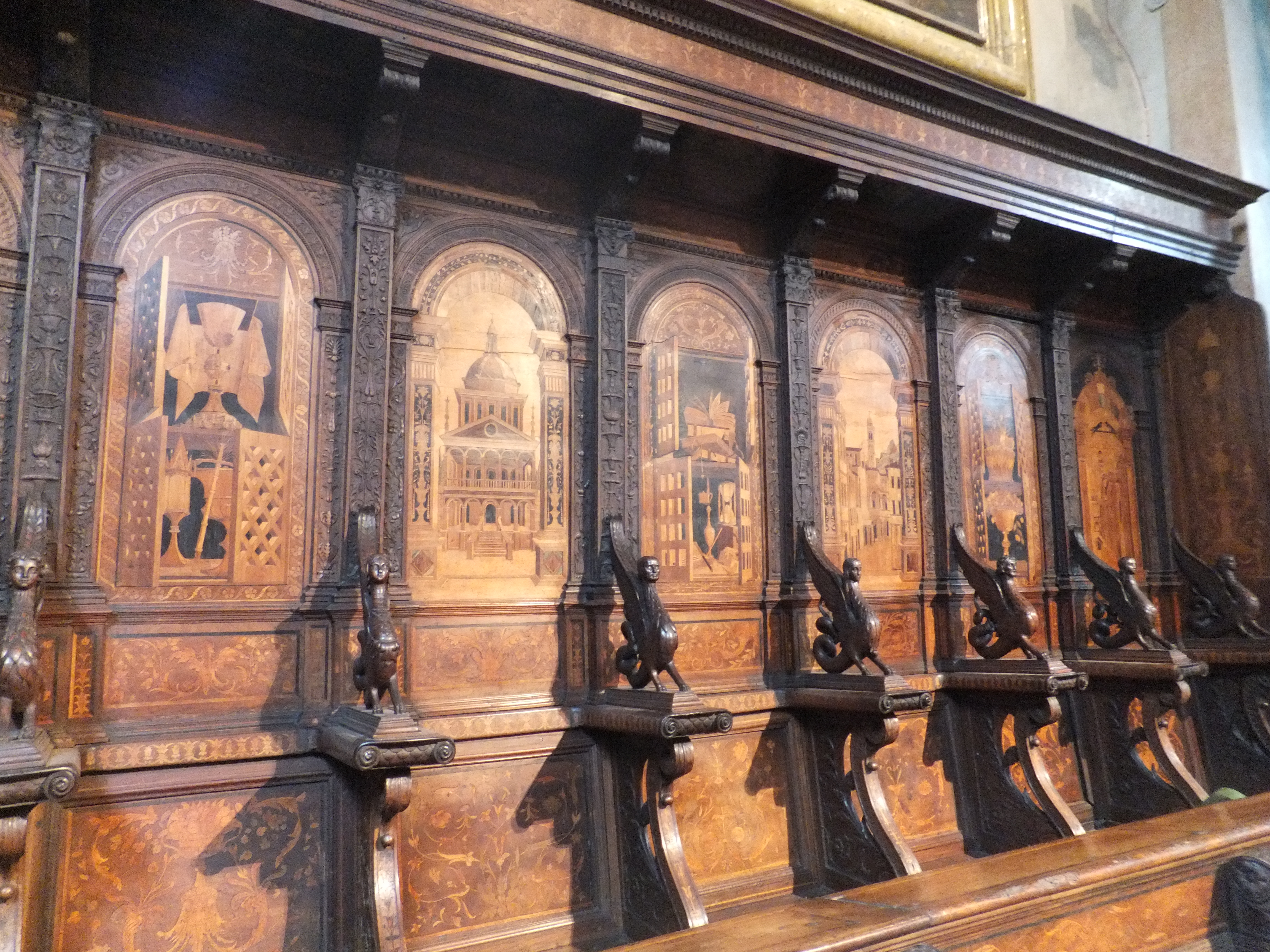 Verona, church of Santa Maria in Organo - Wooden choir by Giovanni da Verona - Detail